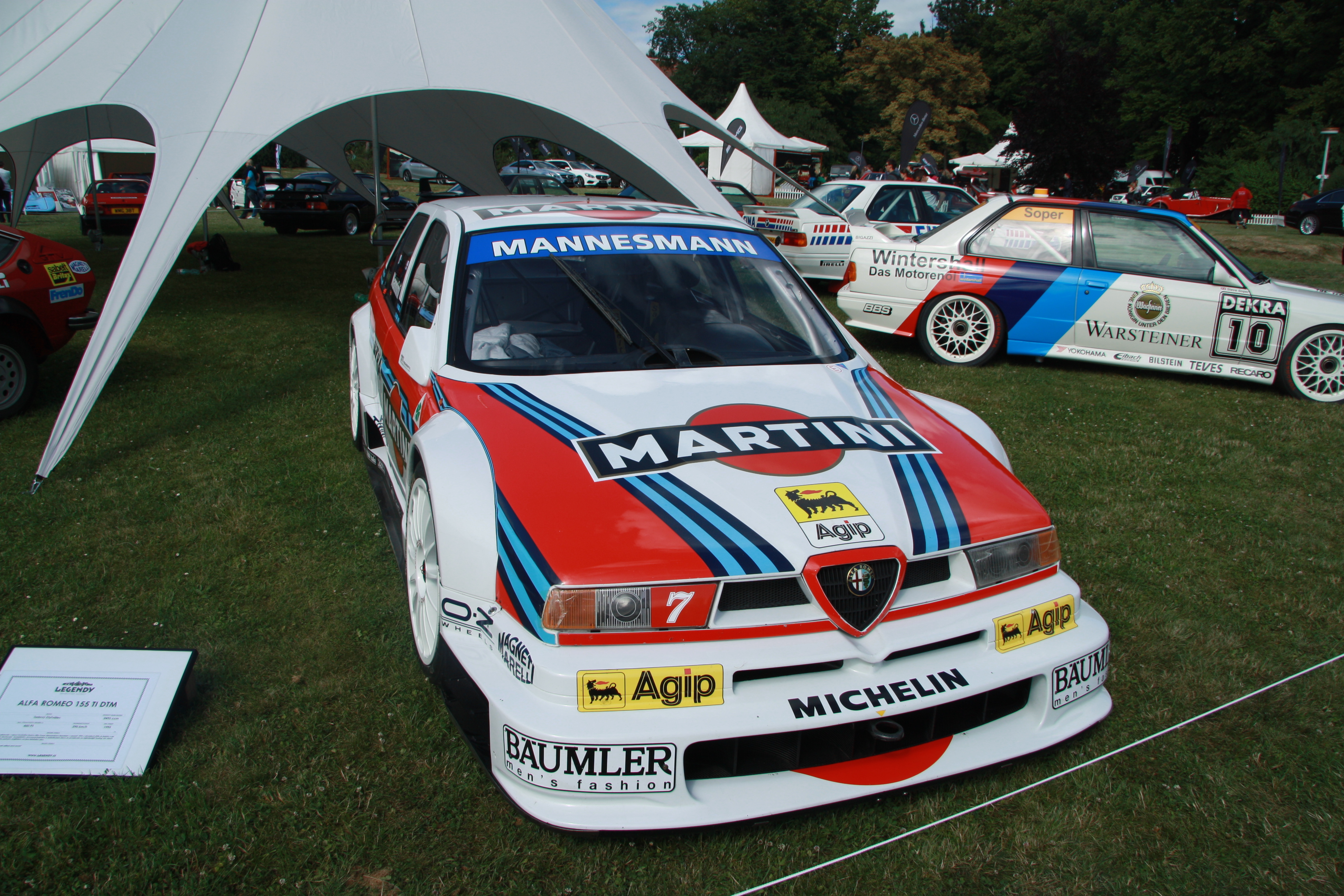 Alfa Romeo 155 TI DTM at Legendy 2014.